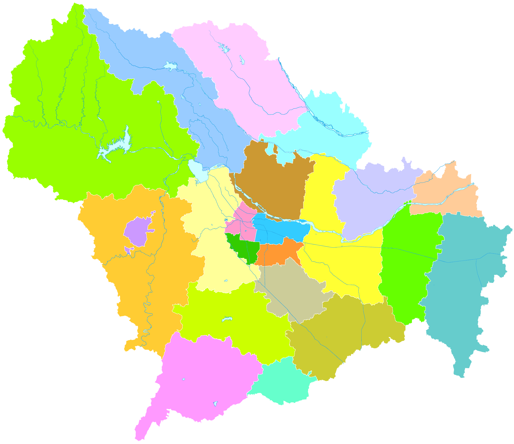 administrative divisions of Shijiazhuang City, Hebei, China